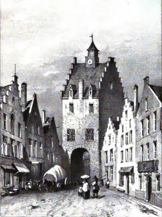 18th-century engraving of the Verlorencostpoirte or Philips gate in Brussels